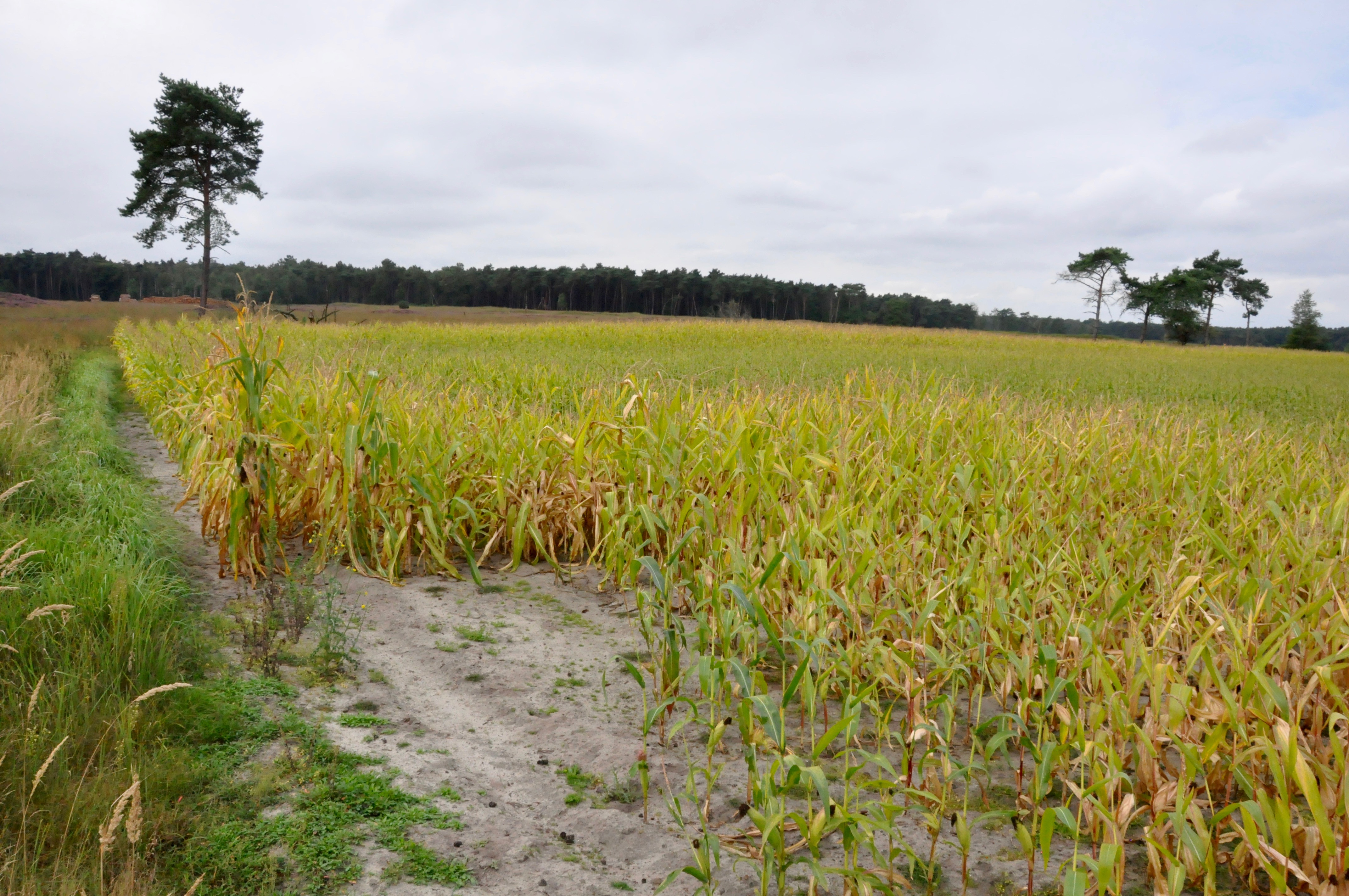 Corn field in "The Steertse Heath", amidst the Kalmthout Heath, on 11 September 2016. Alongside this field, big metal plates were layed down, creating a road presumably to enable access for motorized vehicles related the field. Shortly after taking this picture, I asked "Agentschap voor Natuur en Bos" why (and since/untill when) there were corn fields in the Kalmthout Heath. In September 2016, I received the following reply of that agency, via its website (translated from Dutch here below): “Dear Vincent, The Steertse Heath (Dutch: De Steertse Heide) is a historical agriculture enclave within the Kalmthout Heath. The concerned lands are mostly grasslands but there are also some farmlands amidst the nature reserve. As "Agentschap voor Natuur en Bos" we try to acquire the remaining private properties but such is only possible on a voluntary basis. The owner-farmer must thus himself be determined to sell. If he is not, he can continue farming and fertilizing for quite a while, considering the current legislation. In the area, it's a matter of six lots of corn, of which we were able to buy two. Those are phased into grassland with adapted fertilization as a transitional arrangement for the farmer and subsequently the "Agentschap voor Natuur en Bos" takes them fully under their own administration. Currently thought is given to an alternative way to acquire the remaining lands, whether grasslands or farmlands. After all, to be able to meet our goals it is necessary that the fertilization- and eutrophication-pressure dissapears completely from The Steertse Heath. Also the Netherlands is a strong requesting party of this, since the leaching water has a negative influence on the very important mere De Groote Meer on the territory of the Netherlands. Kind regards.[1]”